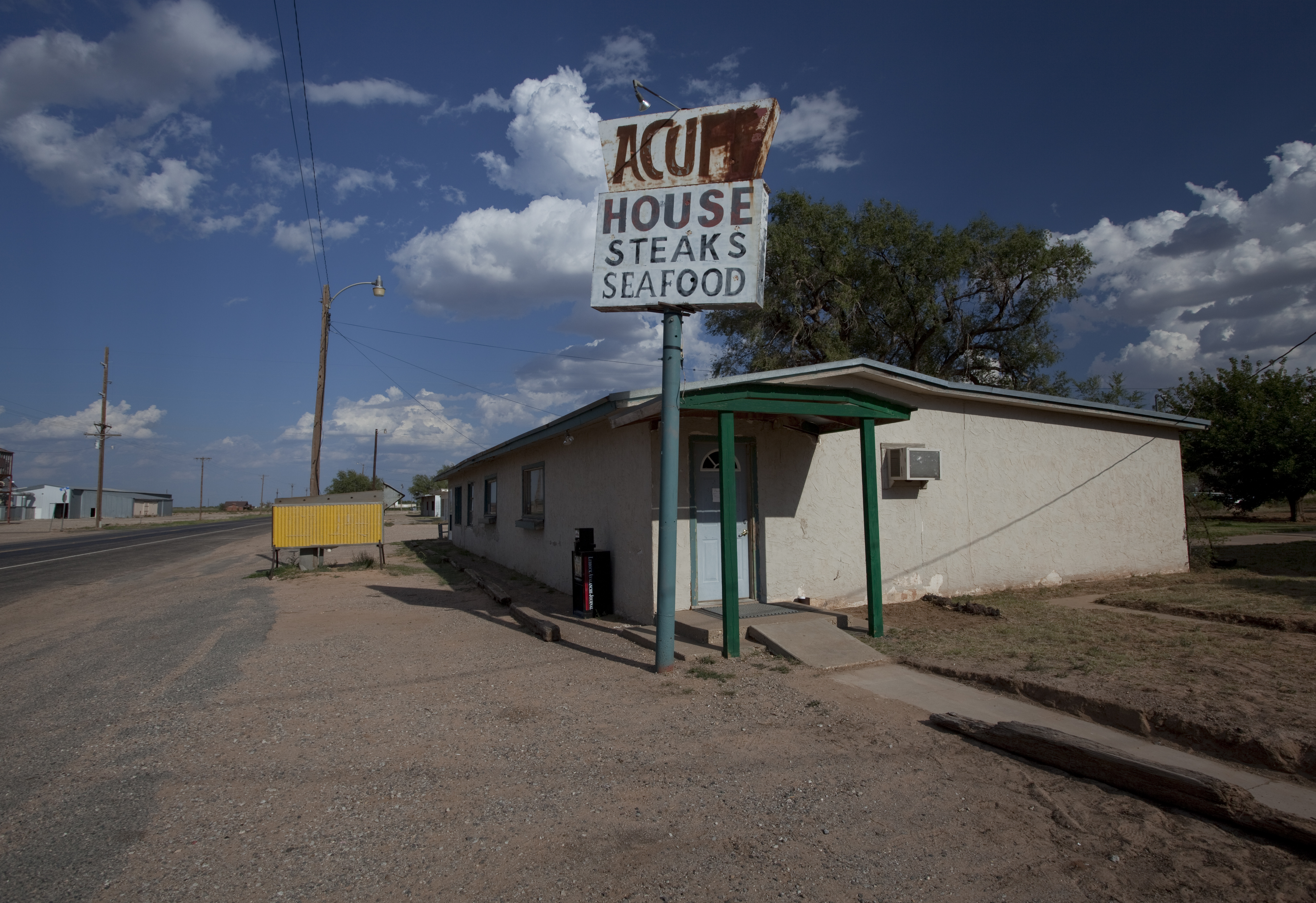 Acuff Steakhouse in Acuff, Texas.